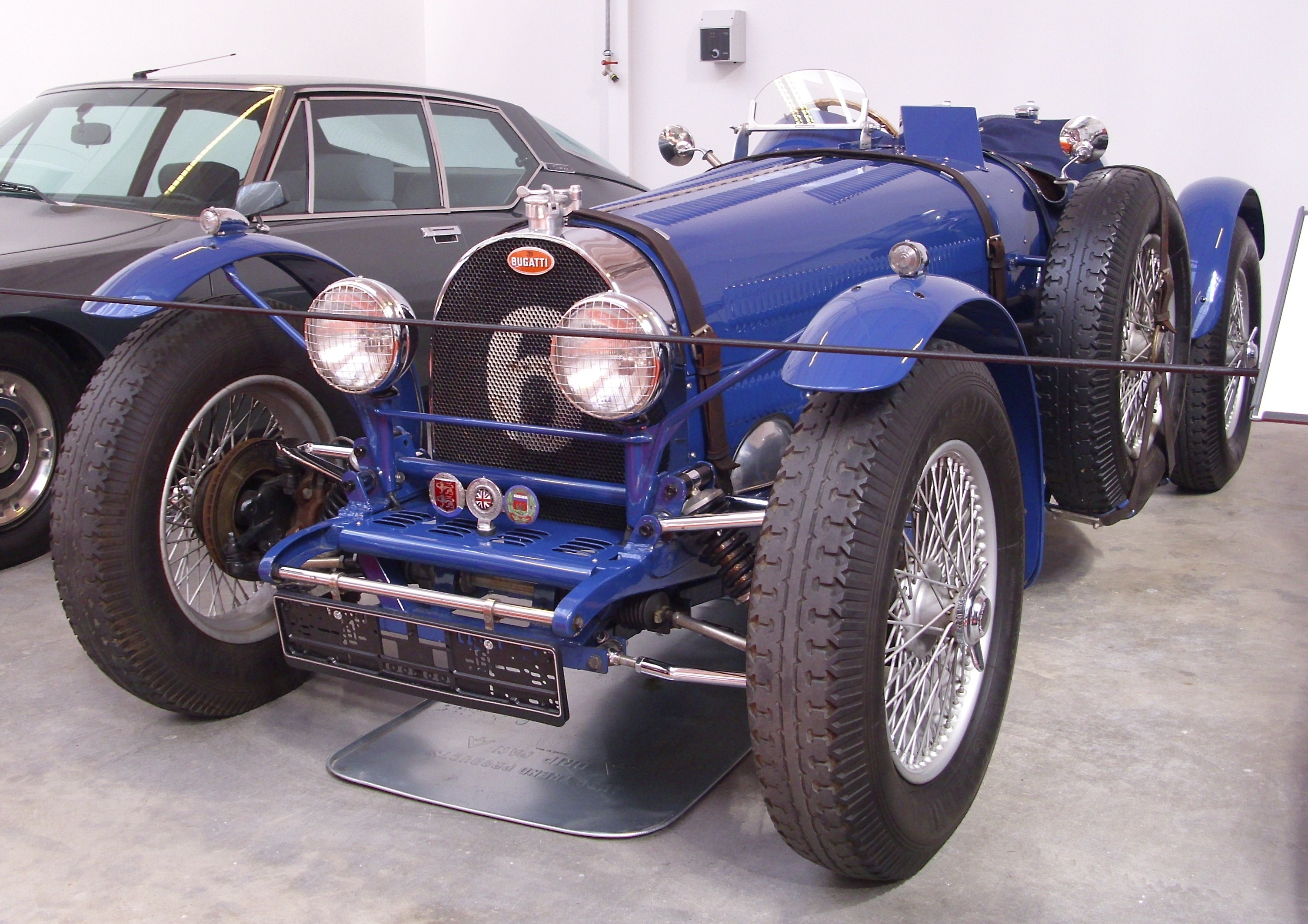 Teal Type 59